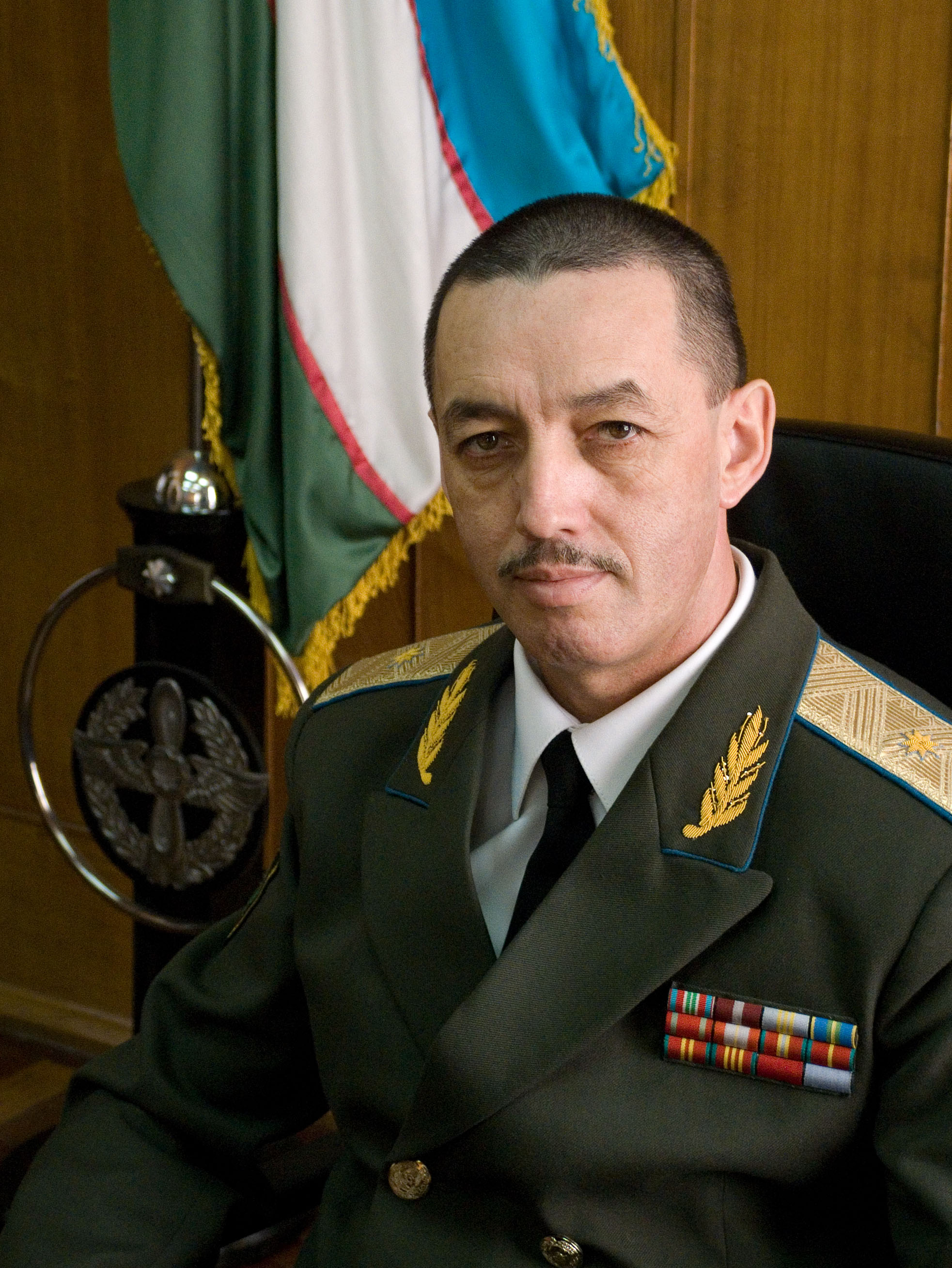 Major General Abdulla Khalmukhamedov